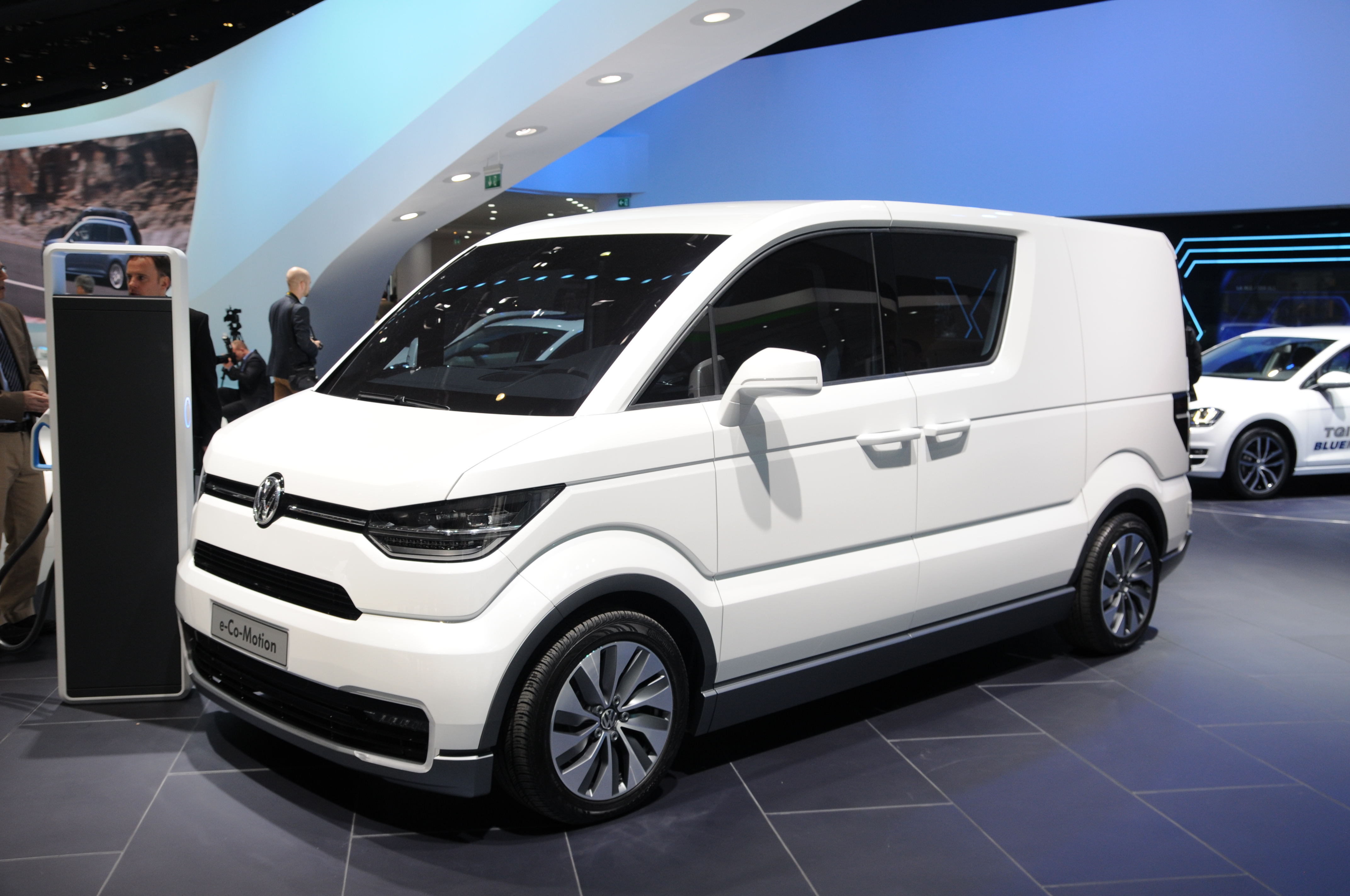 Geneva Motor Show 2013 (photos taken on the first press day)